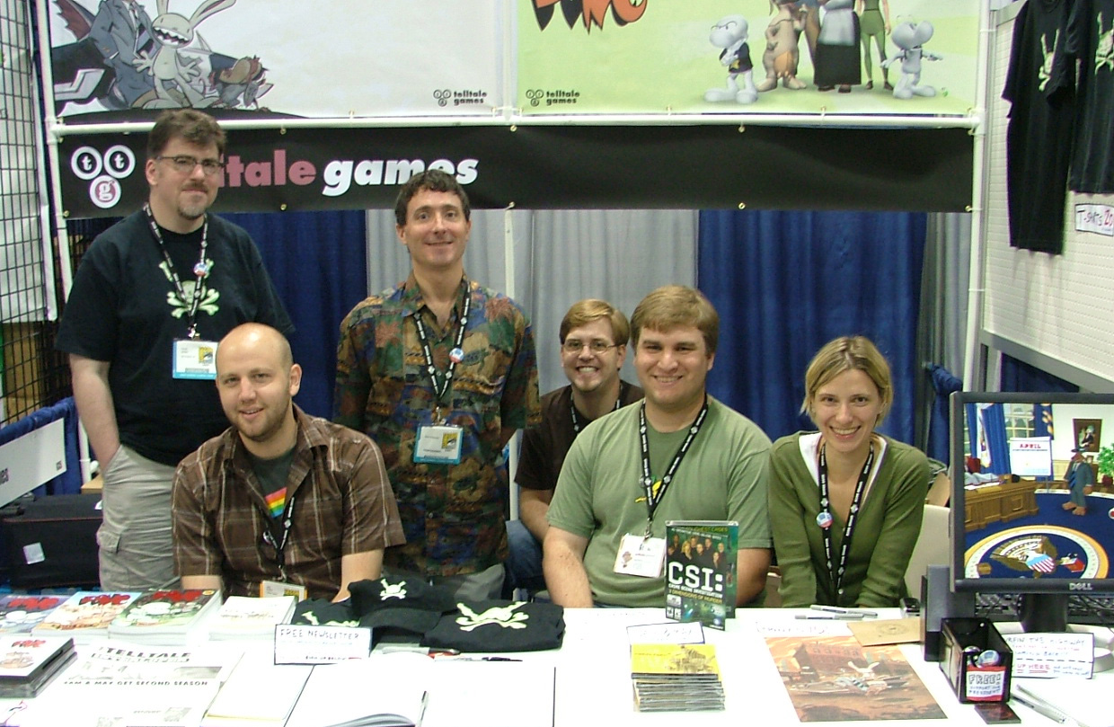 Telltale Games team at the Comic-Com 2007. From left to right: Chuck Jordan, Jake Rodkin, Dave Grossman, Daniel Farjam Herrera, Doug Tabacco, Emily Morganti, and the demo machine with Sam in "Abe Lincoln Must Die!".